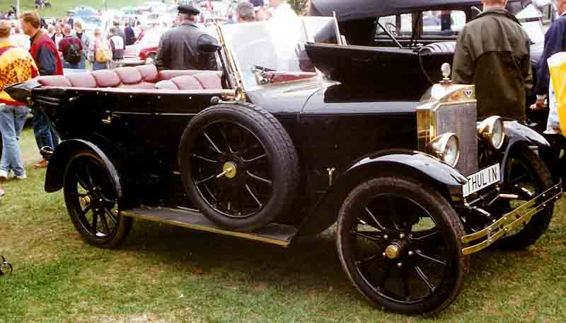 Thulin A25 Phaeton 1923